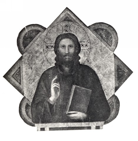 Christ bny Giotto, from the Rimini Cross, private collection, London